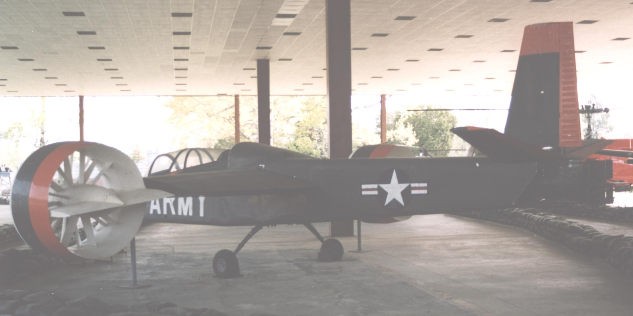 Doak VZ-4 convertiplane U.S. Army on display at Fort Eustis Virginia